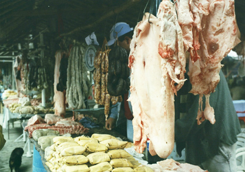 Traditional food products at market in Simoca, Argentina